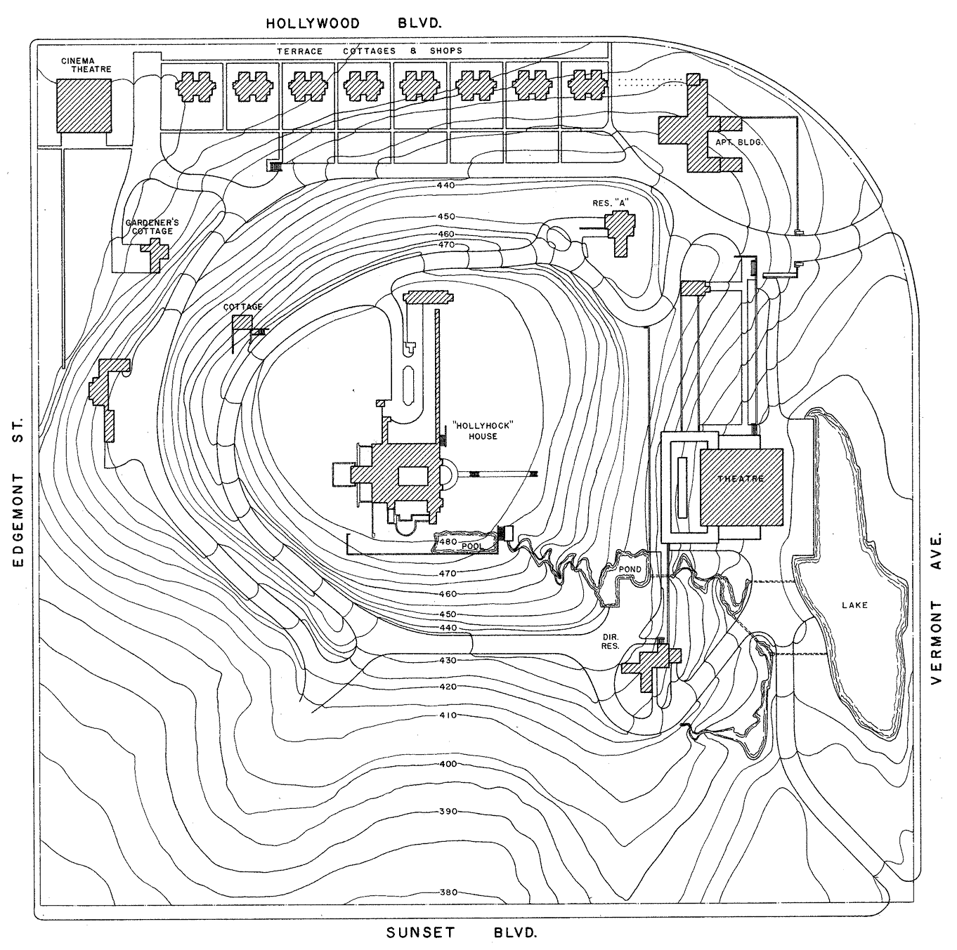 Proposed site plan of Hollyhock House and Olive Hill Estate (c. 1919 plan). Location of present day Barnsdall Art Park in the East Hollywood district of Los Angeles, California. Image: HABS—Historic American Buildings Survey in Los Angeles.